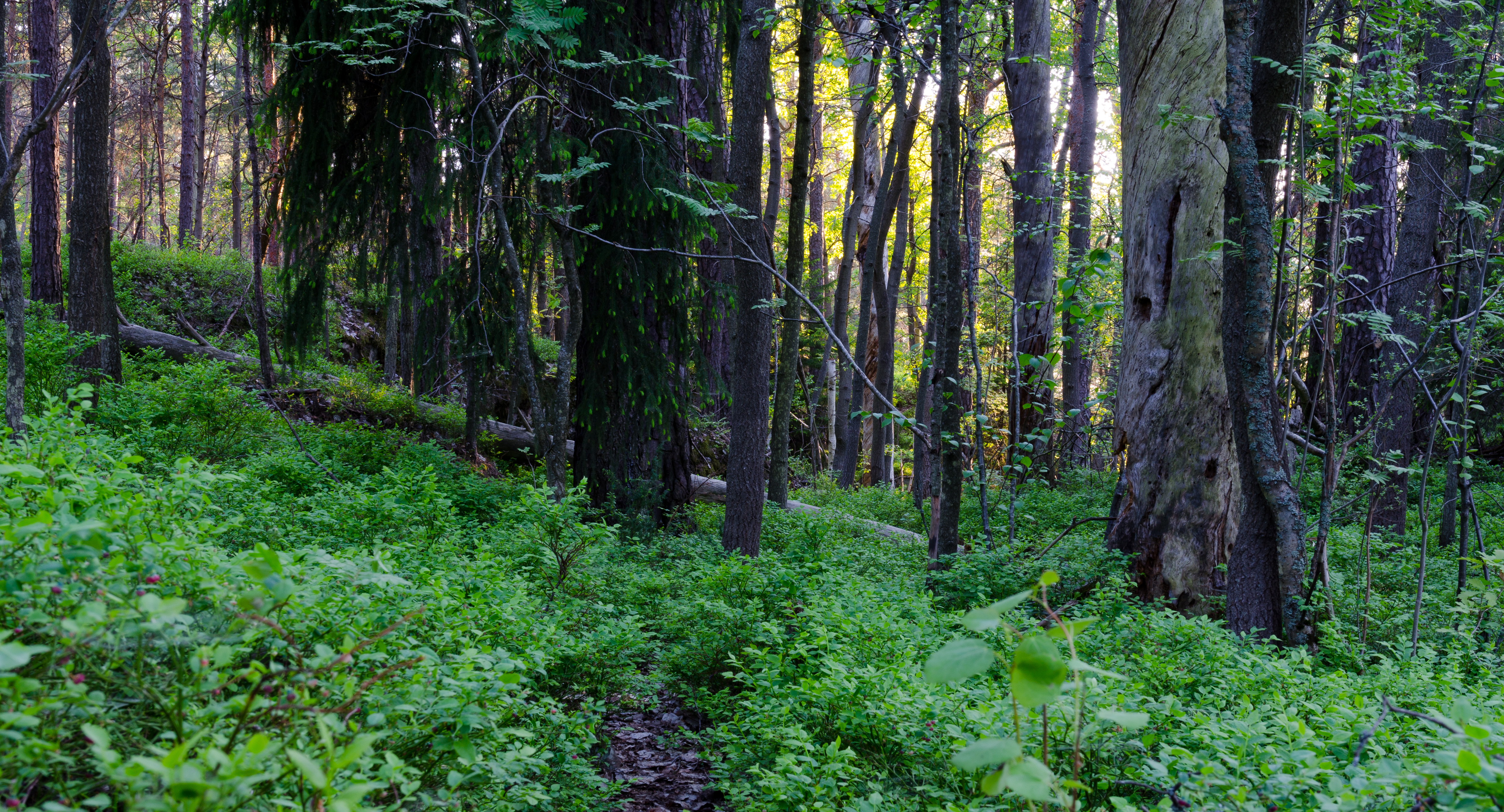 Forest in Ryssbergen (literally translated in